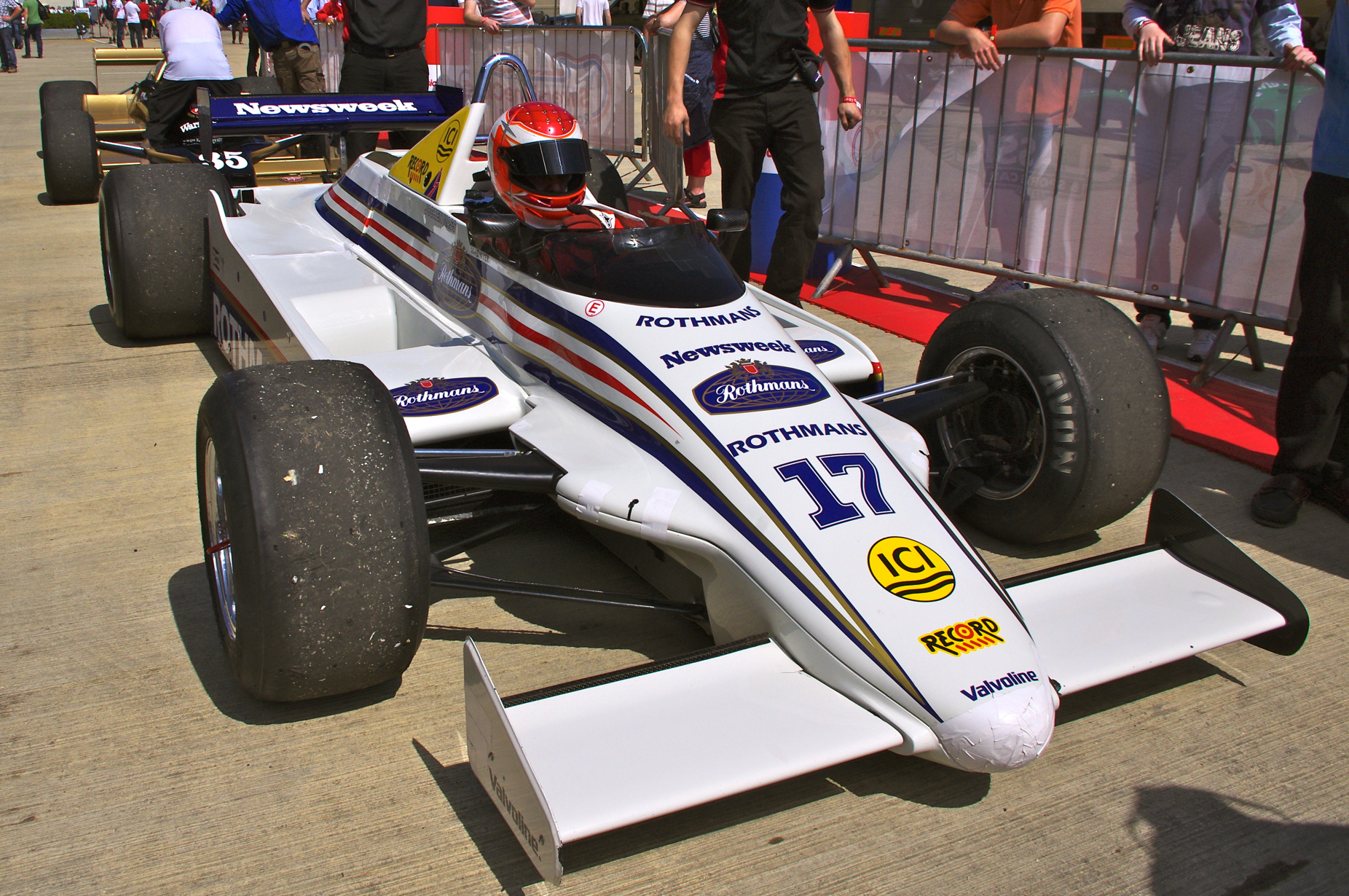 Silverstone Classic, 2012